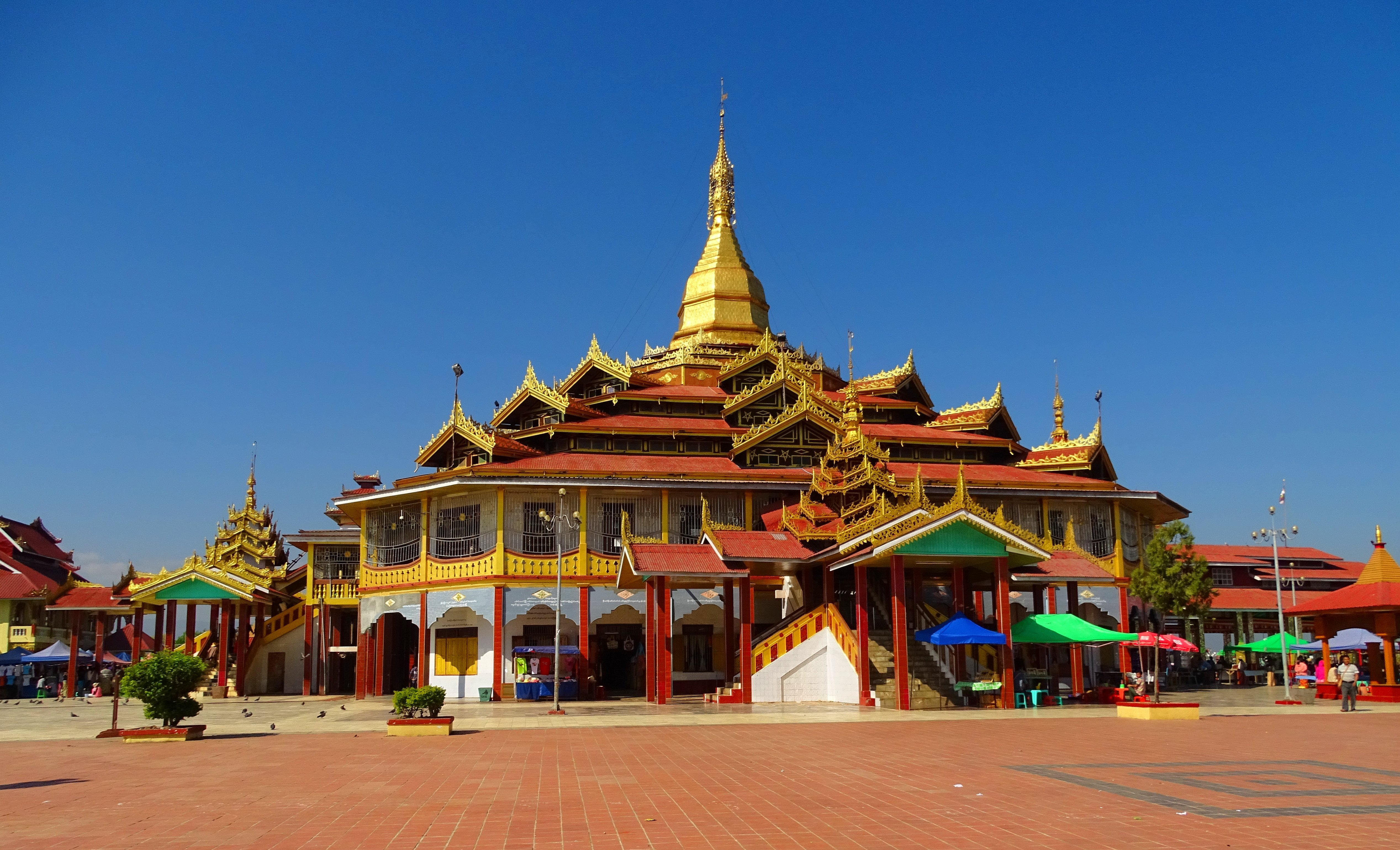 Hpaung Daw U Pagoda, Inlay Lake, Shan State, Myanmar (Burma)